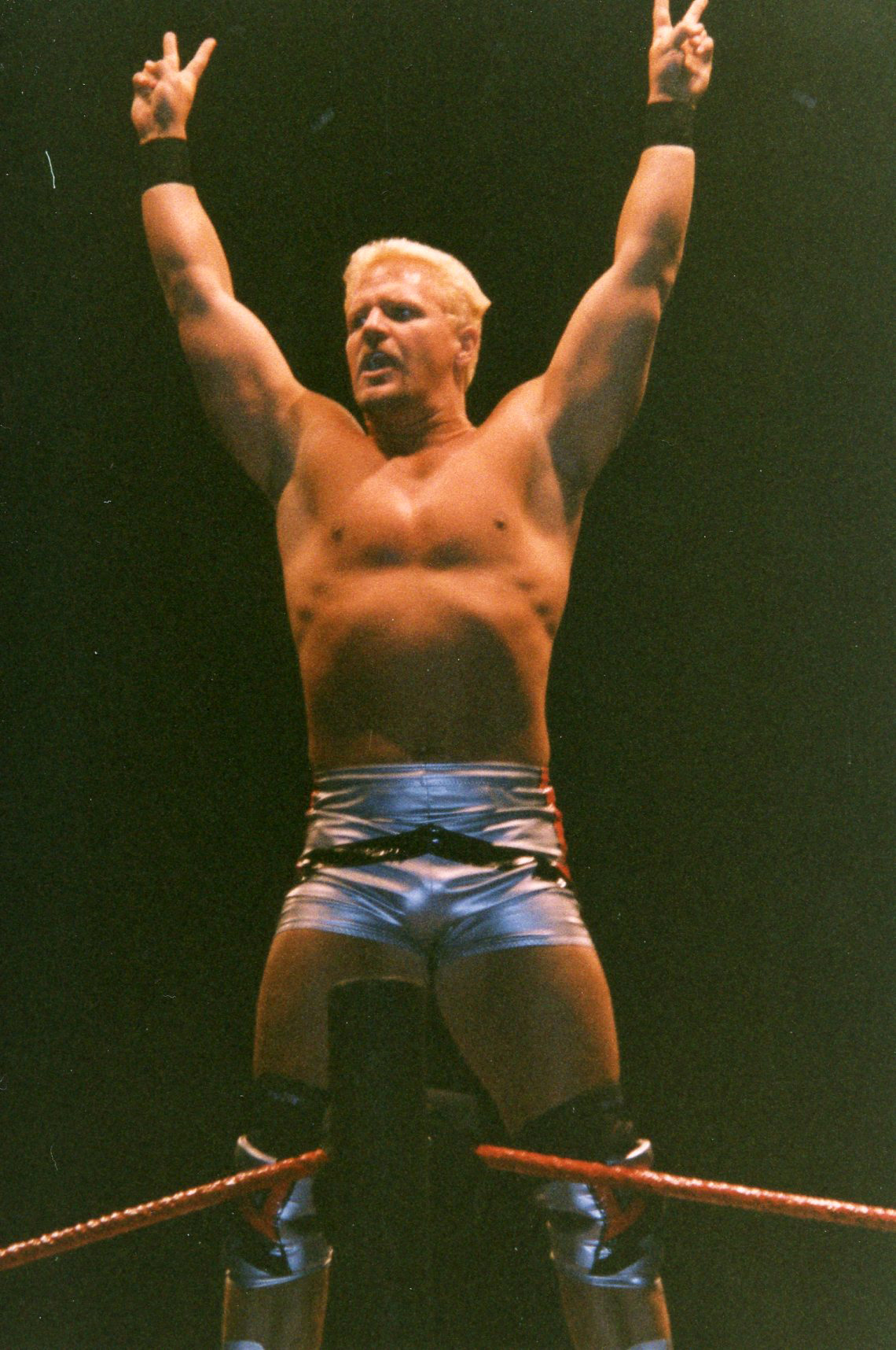 Jeff Jarrett before a match at the then-Telewest Arena in Newcastle upon Tyne, England. Taken April 3, 1999.